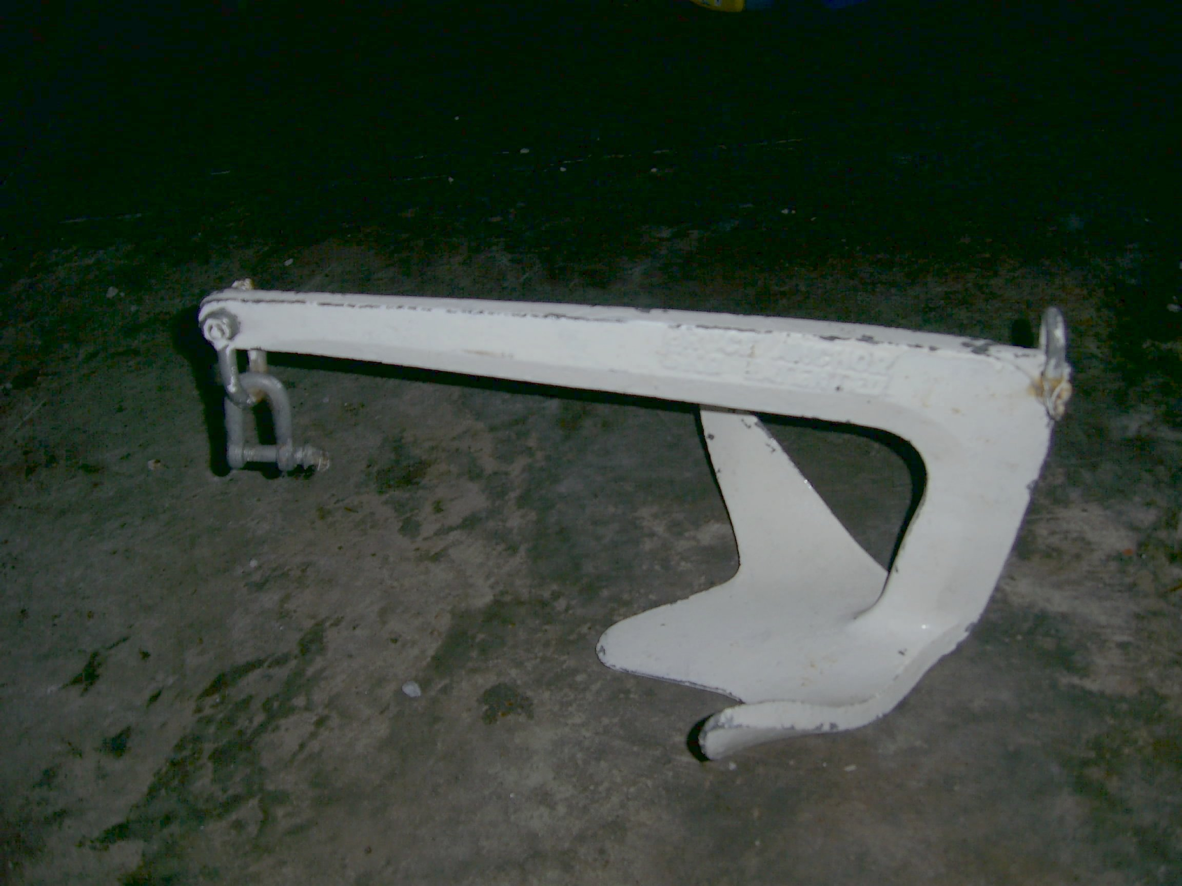 Uploaded by photo's author. Taken specifically for Wikipedia